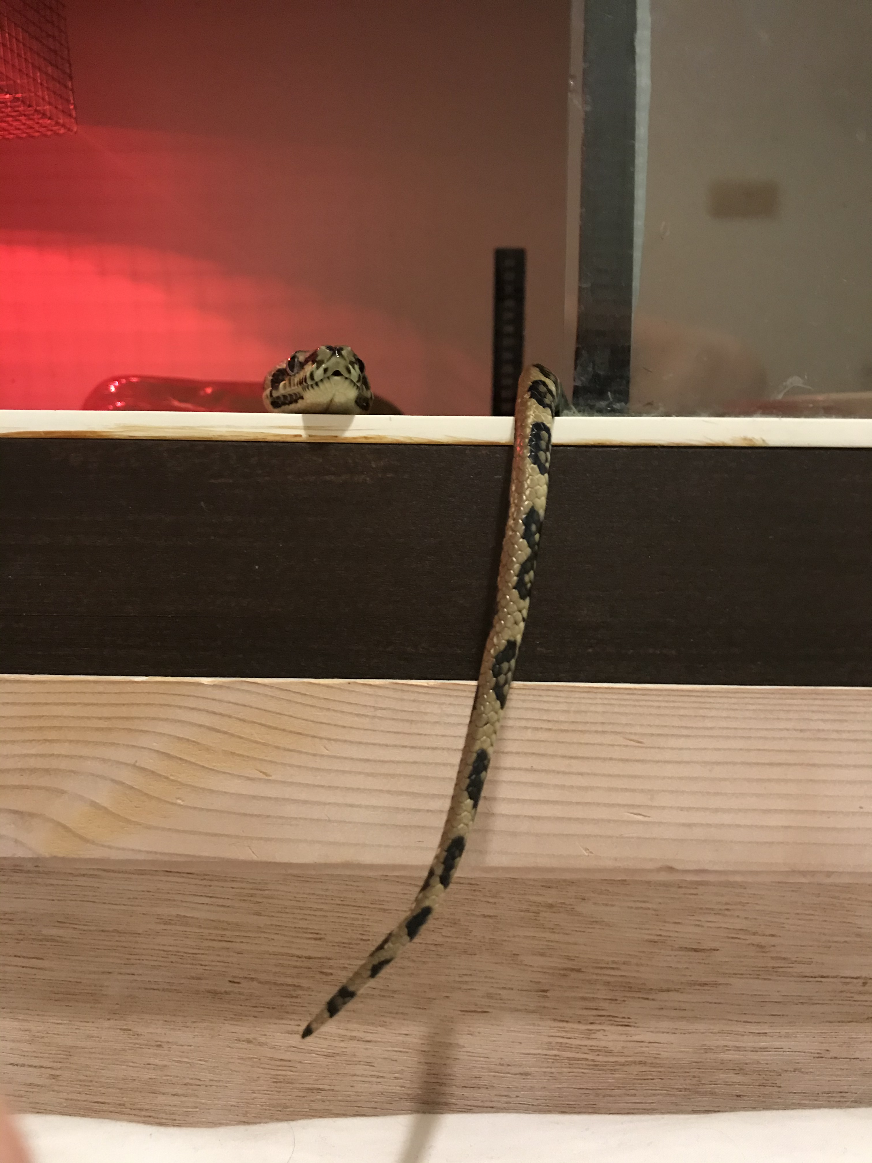 This is an example of a snake engaging in caudal luring (trying to tempt prey to come closer by presenting its tail as a tasty worm)